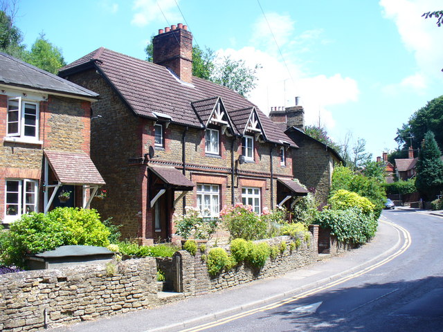 Crownpits Brighton Road in Crownpits has sharp bends as it ascends the valley to Busbridge. Crownpits gets its name from Old English, crumb, =crooked.